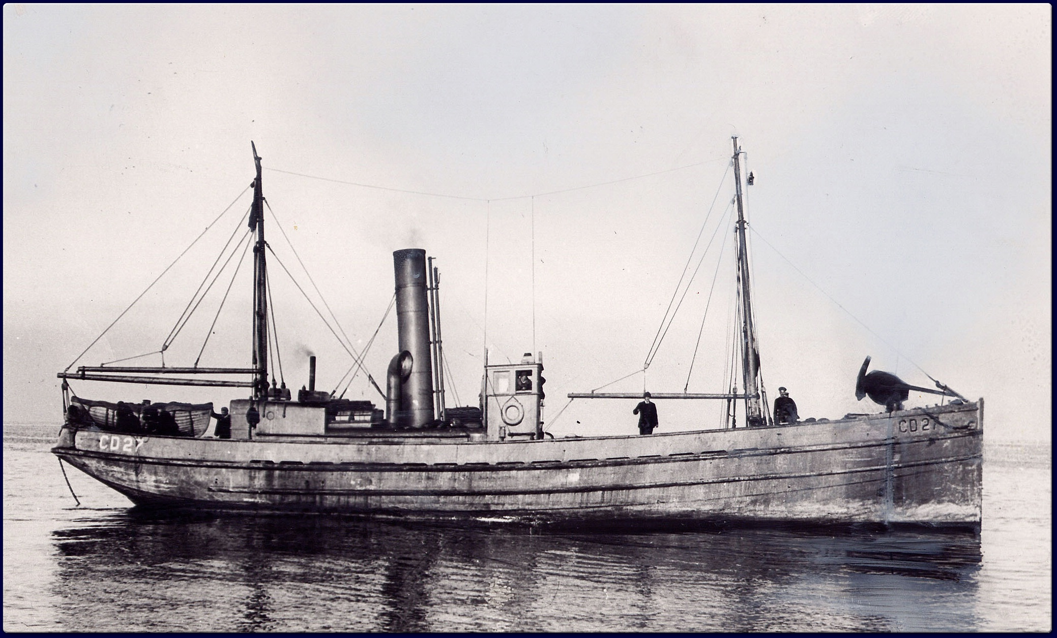 Photograph of Canadian armed CD type drifter CD 27.